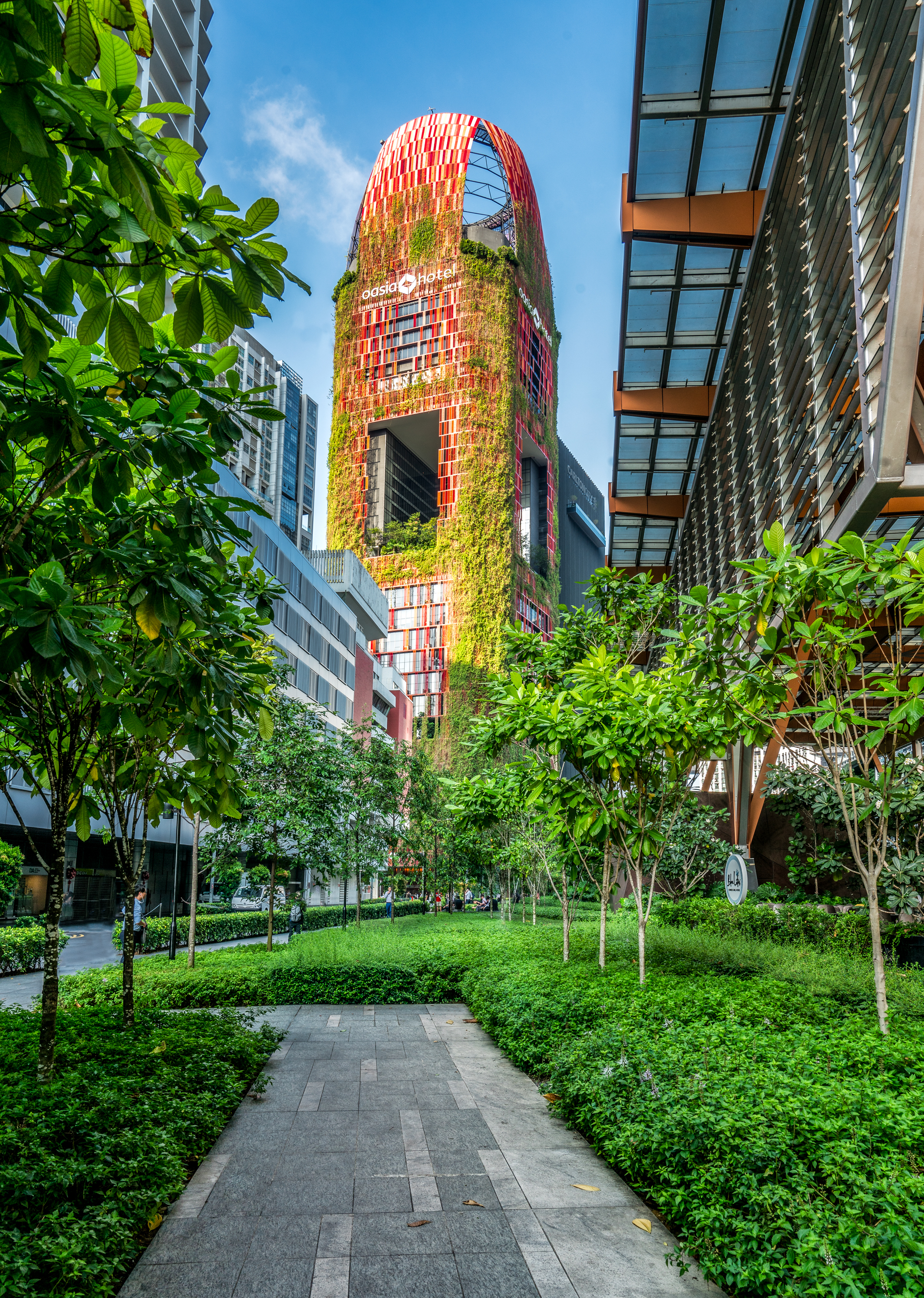 Day view of Oasia Hotel Downtown.